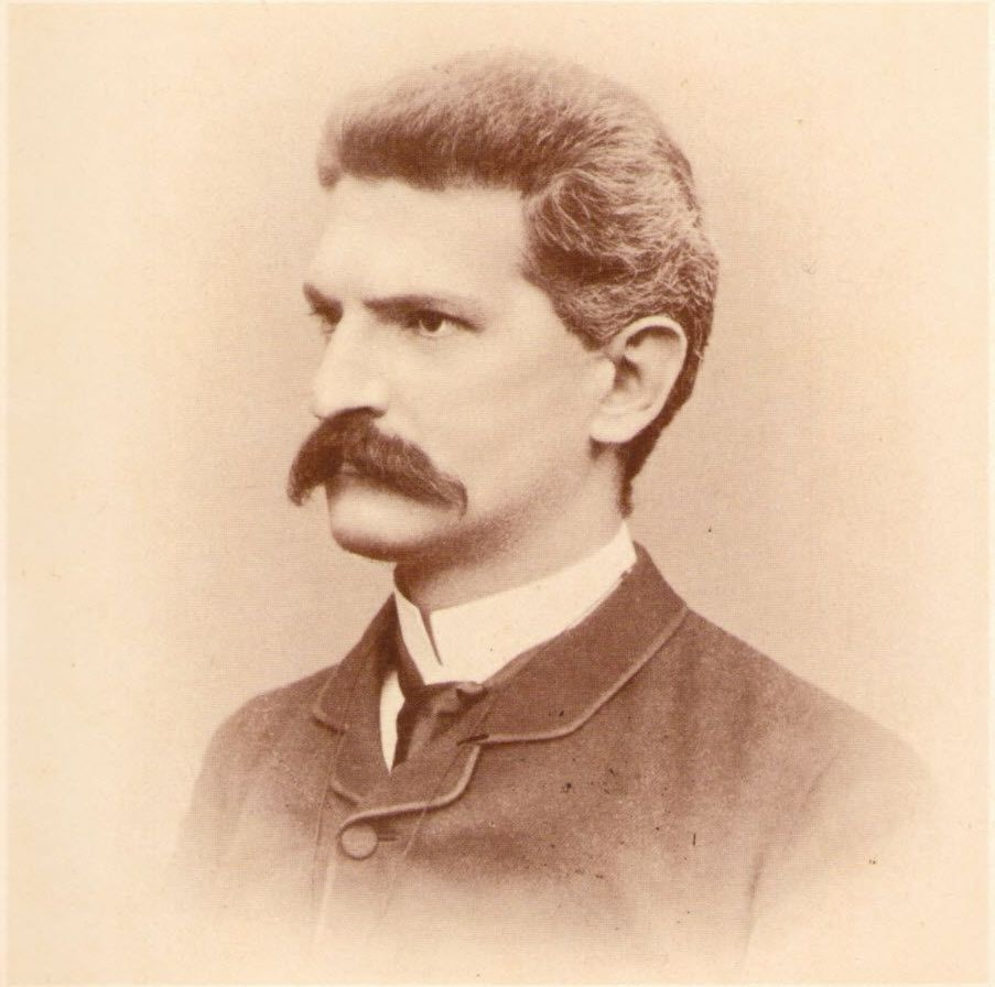 Sidney Sonnino (11 March 1847 – 24 November 1922). Italian politician.